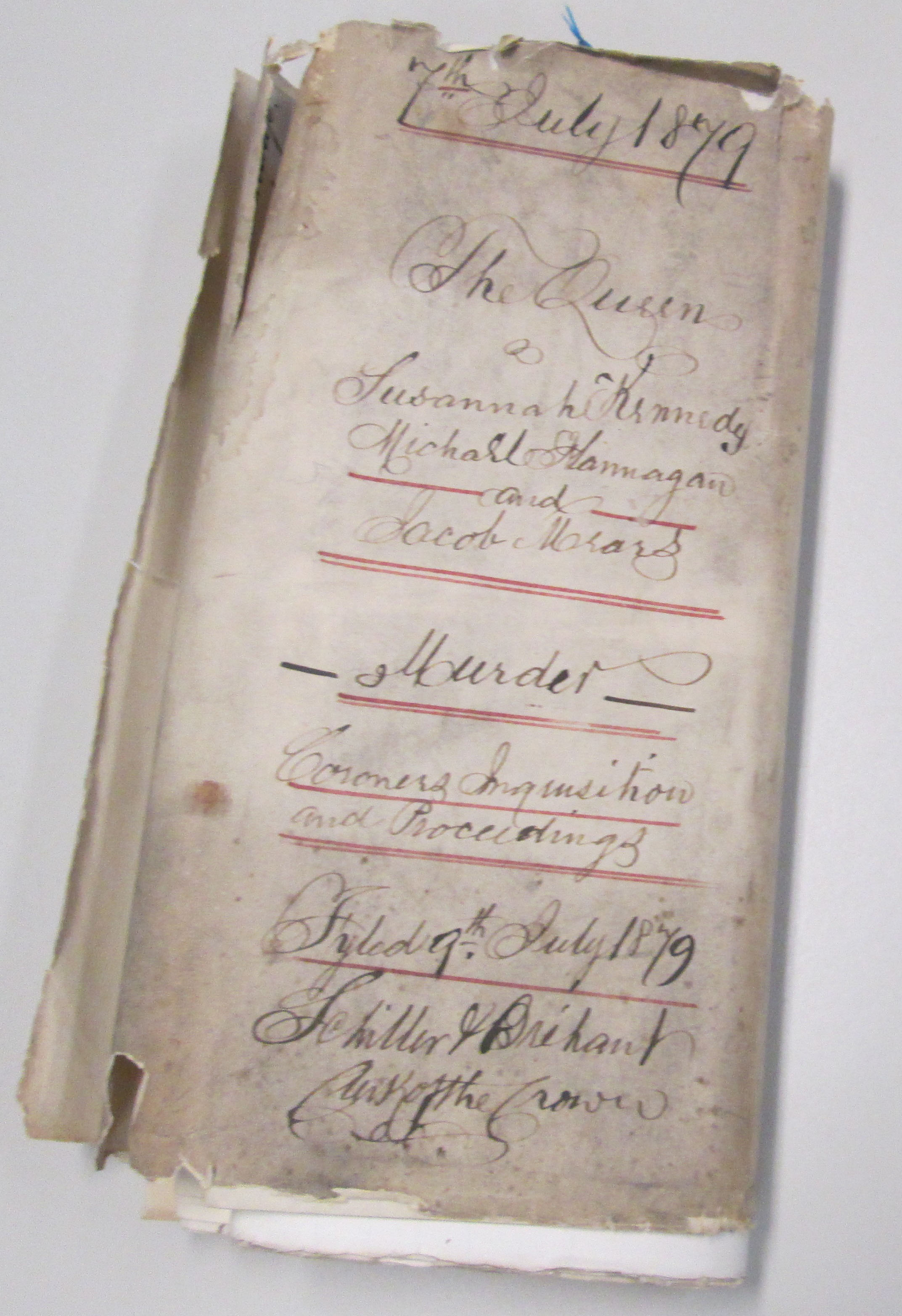 The Queen vs Susannah Kennedy, Michael Flannagan and Jacob Mears. Murder. Coroner Inquisition and Proceedings. 7th July 1879.